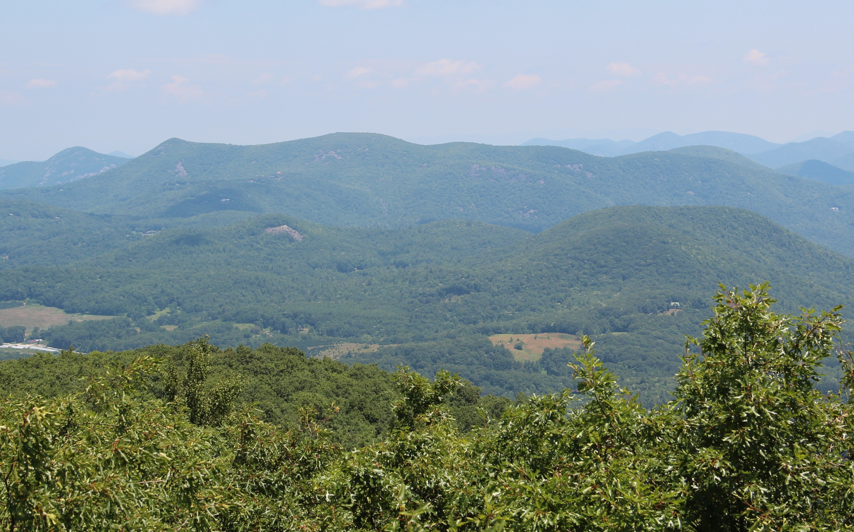 Scaly Mountain, North Carolina seen from Rabun Bald